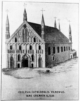 Vilnius Cathedral in Gothic architectural style in 1530.